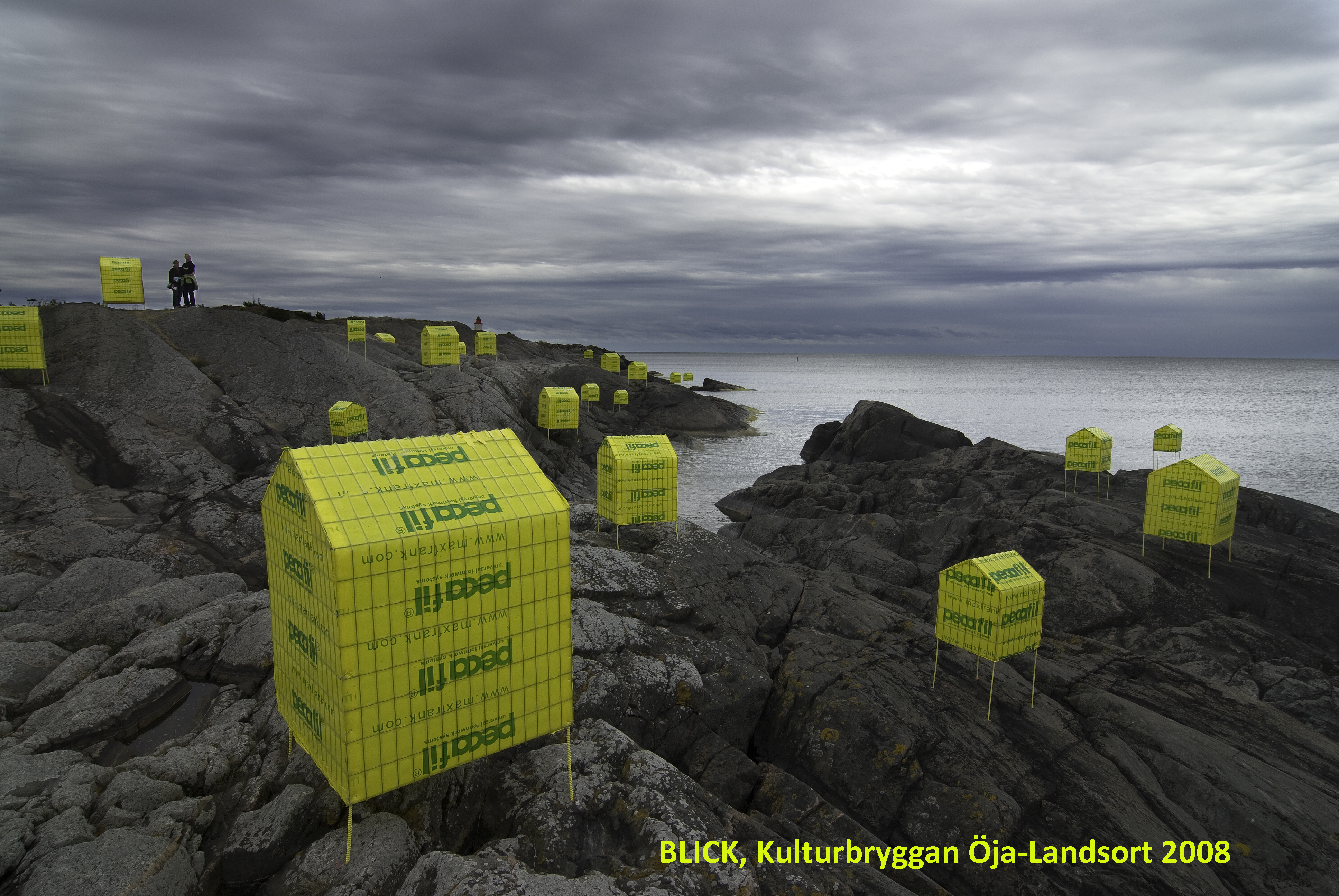 Installation Kulturbryggan Blick, by the artists duo Karin Lind and Simon Häggblom. Öja-Landsort 2008, Sweden.